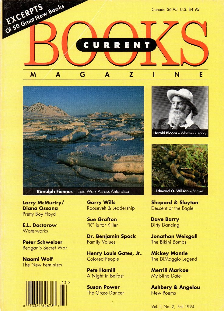 Current Books Magazine was published between 1992 and 1995 and contained excerpts of 20-25 books in each issue.